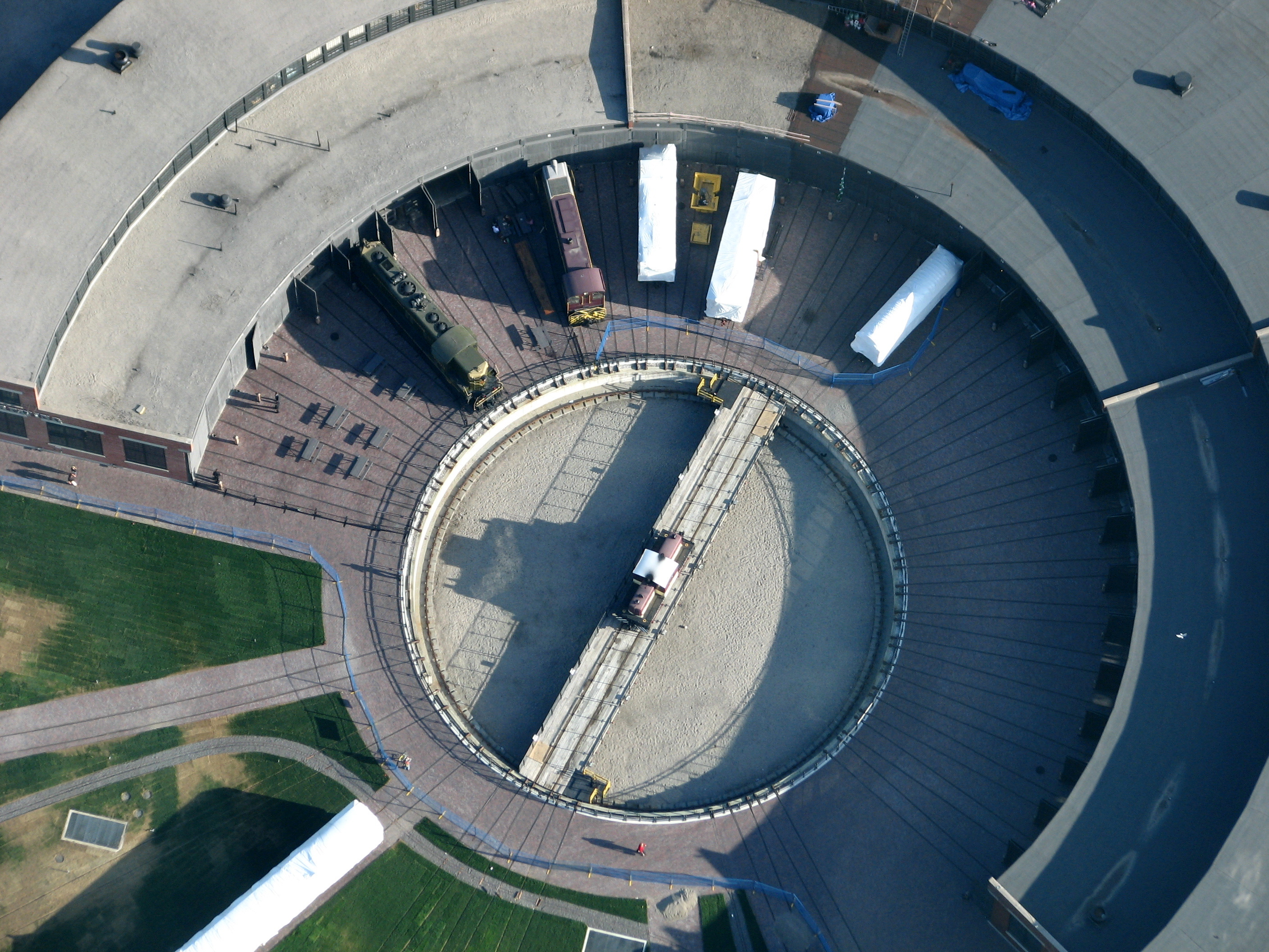 Rail turntable viewed from the CN Tower, in Toronto, Ontario, Canada.